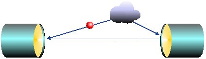 Scatter event during PET acquisition